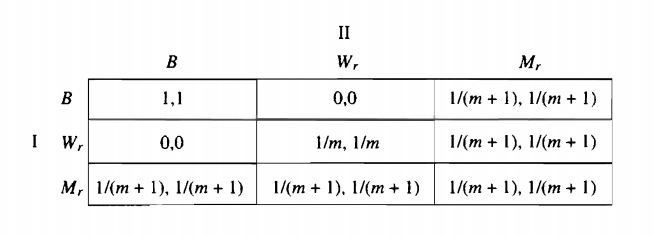 ماتریس دستاوردها برای بازی مهره ی آبی